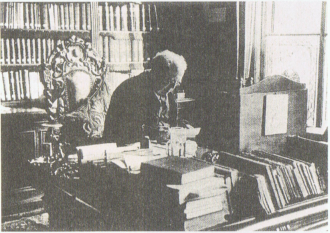 Abraham Kuyper